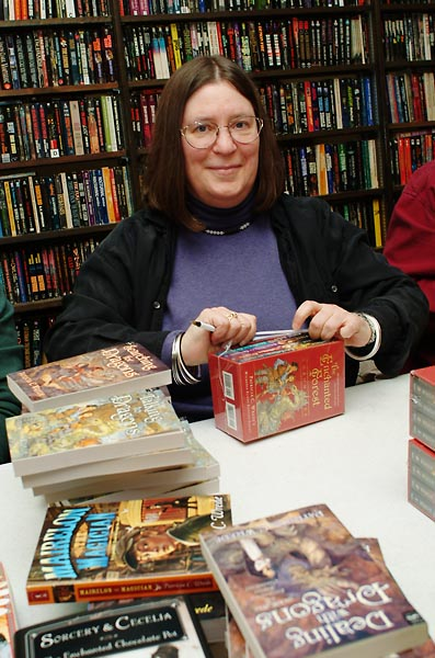 Patricia Wrede autographing at the Uncle Hugo's Science Fiction Bookstore 30th Anniversary party.